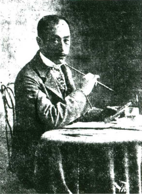 A photograph of Toshio Aoki .